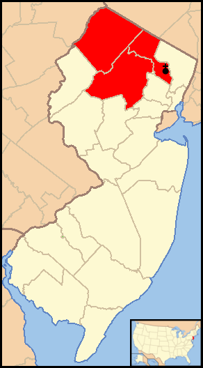 Maps of the Catholic Diocese of Paterson in the USA.